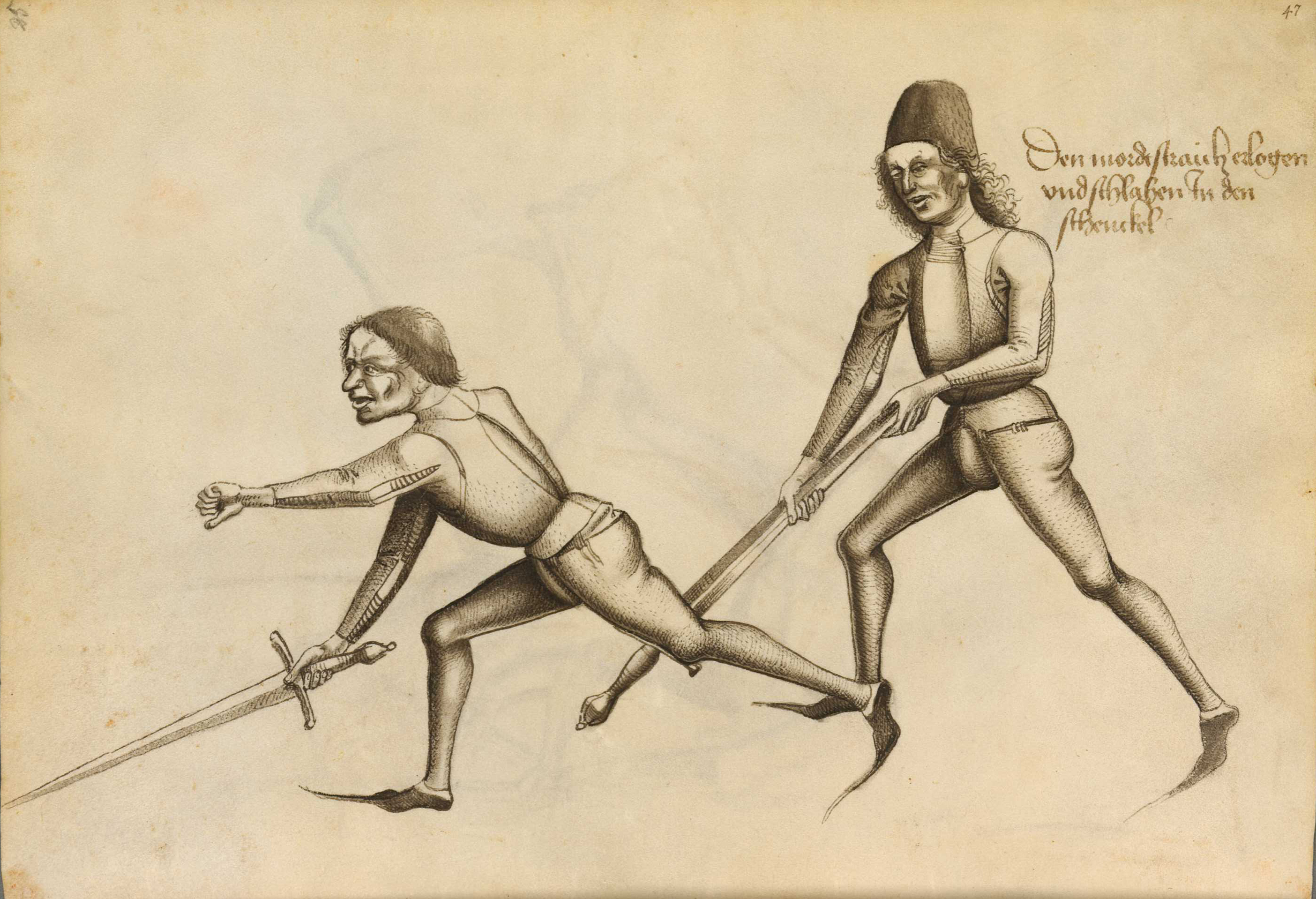 This is a scan of the historical Fechtbuch ('fencing book') by German fencing master Hans Talhoffer.